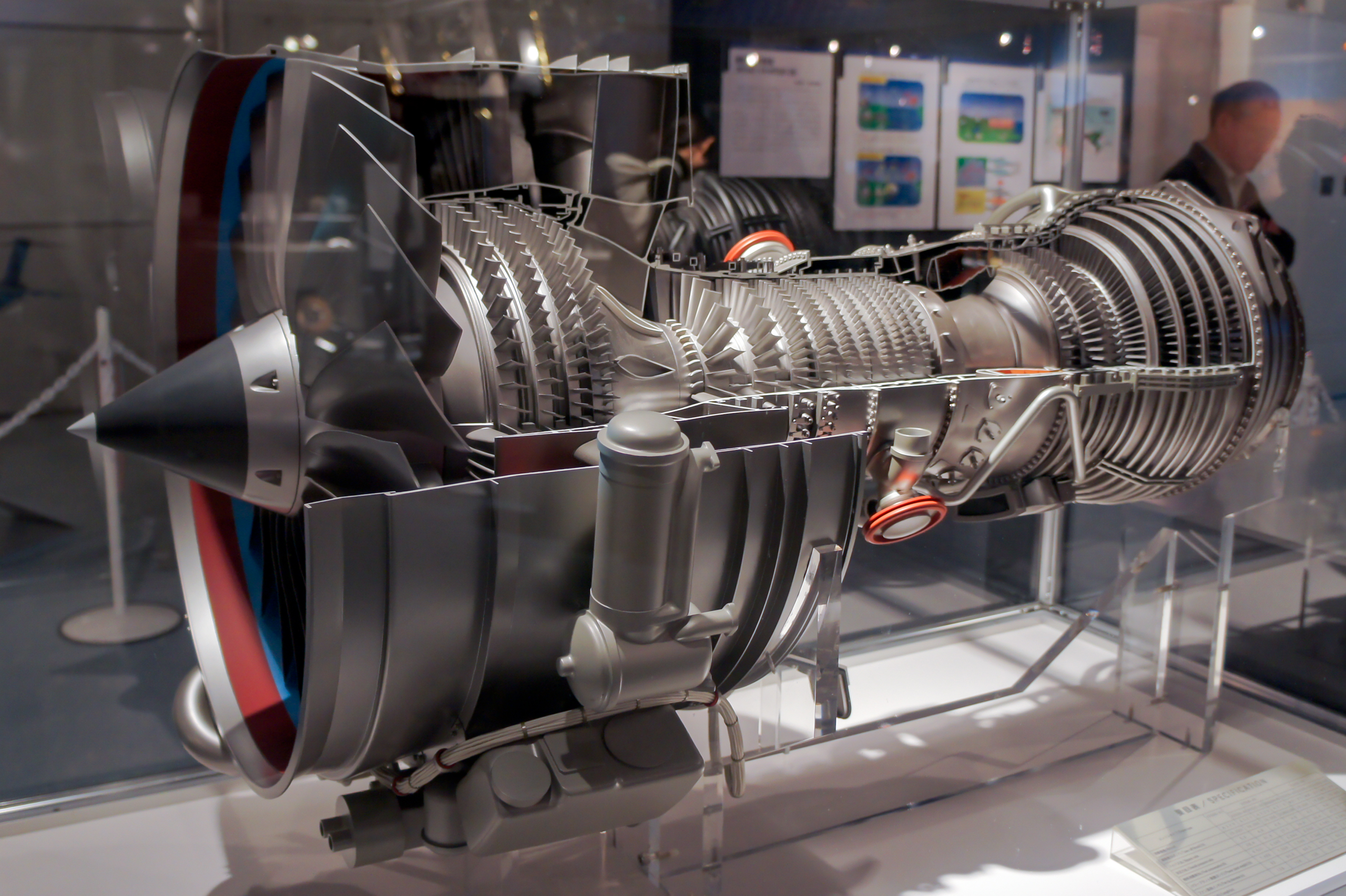 IAE V2500 engine cutaway model